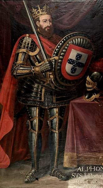 o grande rei